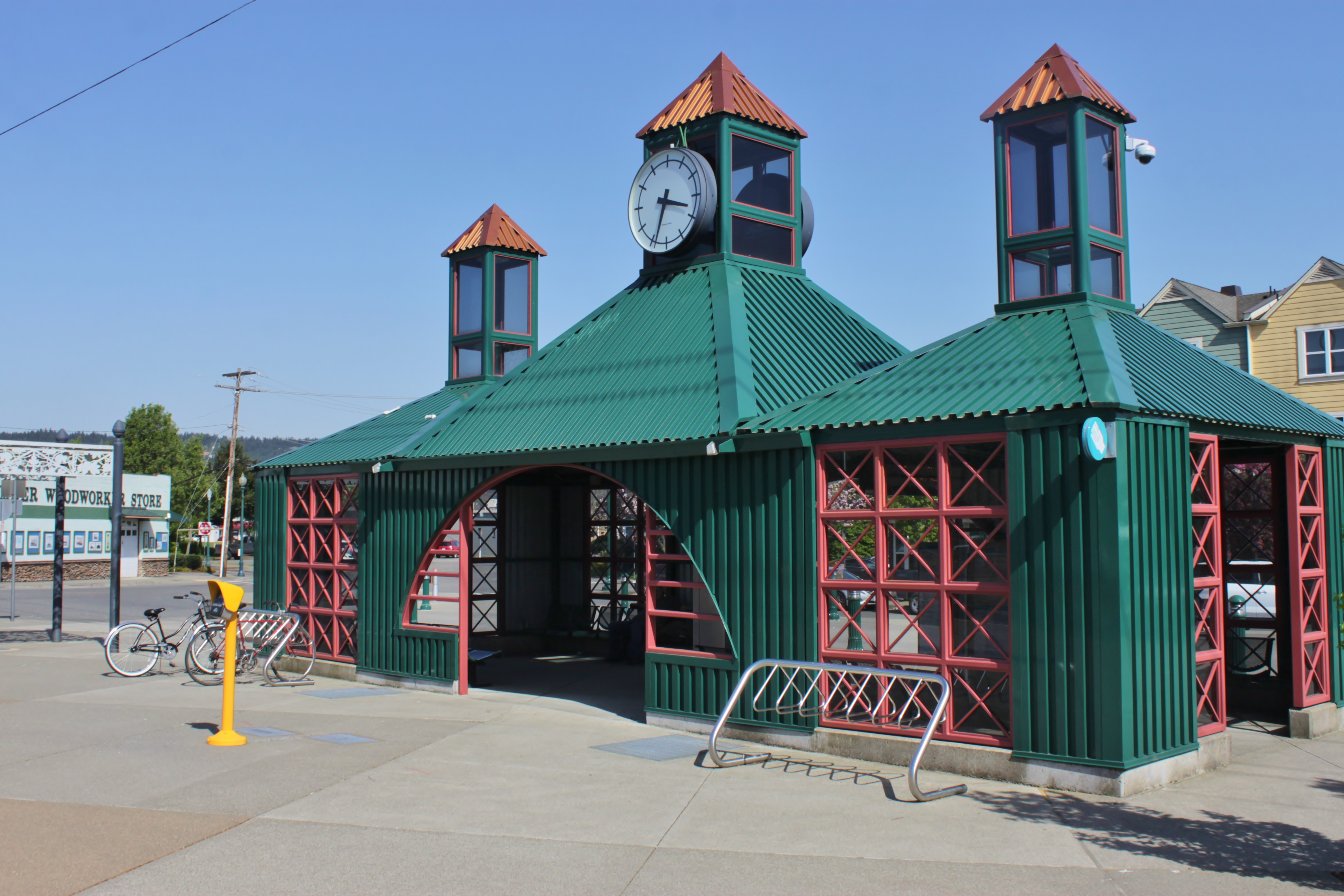 The waiting shelter at Sumner station, designed to resemble a hop kiln